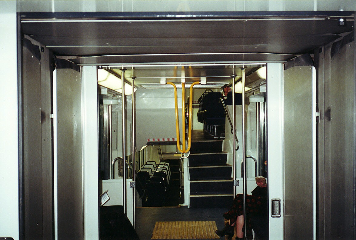 Interior of 4D car 6000T at Flinders st 2000.